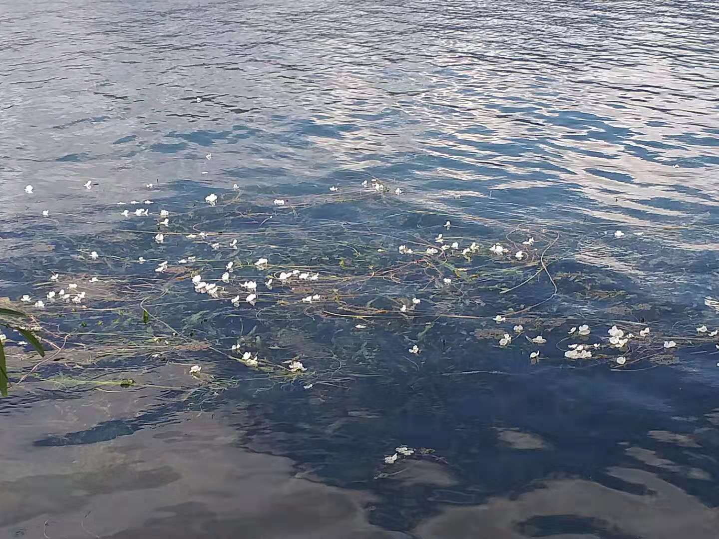 Ottelia acuminata var. crispa is native to Yunnan and Sichuan (Lugu Lake). Apart from the flowers, which float on the surface of the water on sunny days, the stems and leaves live under water. During the blossom season from May to September, the scene of the small white flowers covering the lake is spectacular. Ottelia acuminata var. crispa can live only in extremely pure water and now, because of global pollution problems, Lugu Lake is the only place where it can still survive. Ottelia acuminata var. crispa is edible. Before being a plant protected by the government, it was used as wild vegetables. Thanks to the macro, we can see that the small flowers of Ottelia acuminata var. crispa are very beautiful. Photo taken in Lugu Lake of Yunnan province, China.